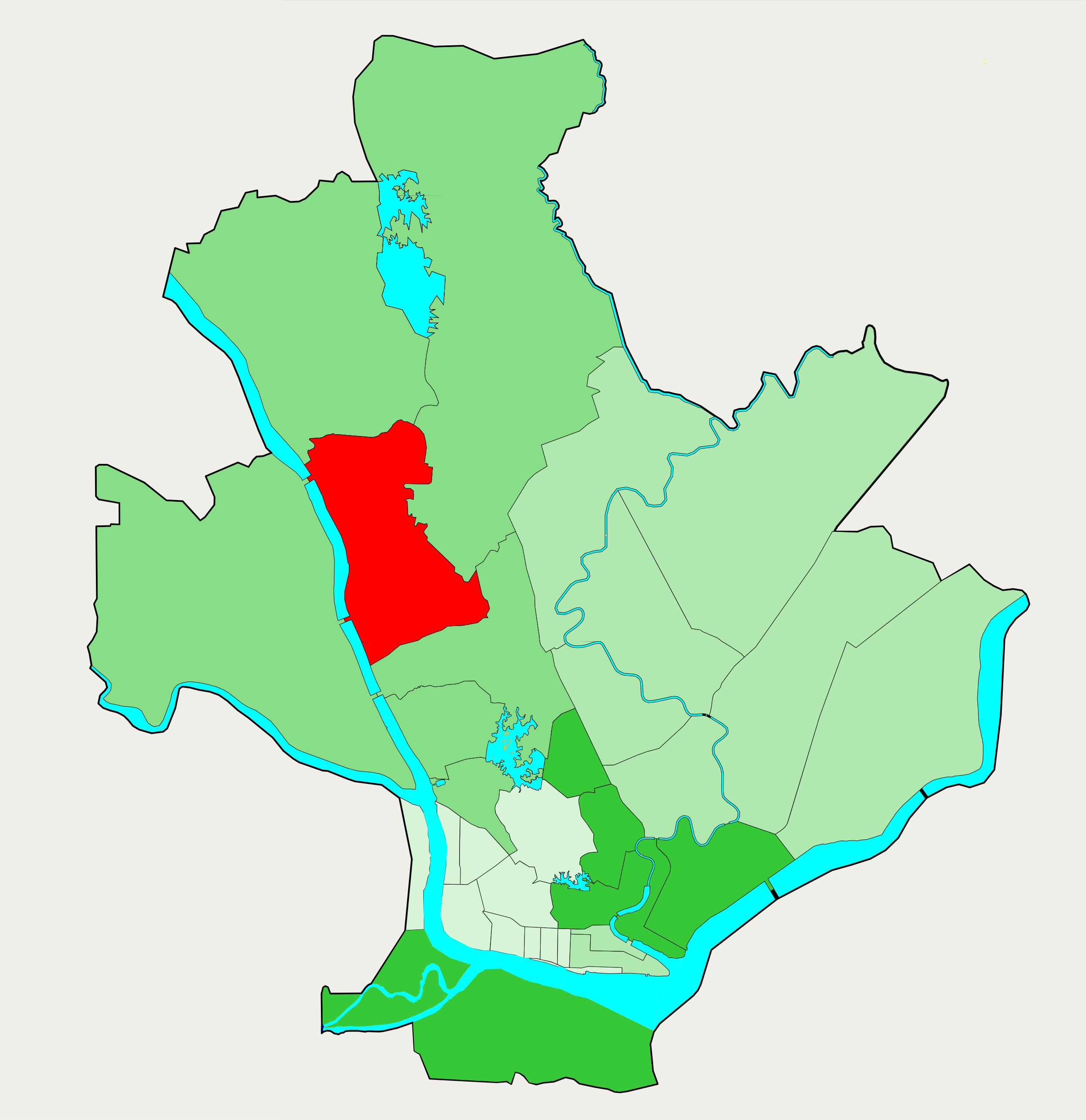 Insein Township of Yangon (marked in red)